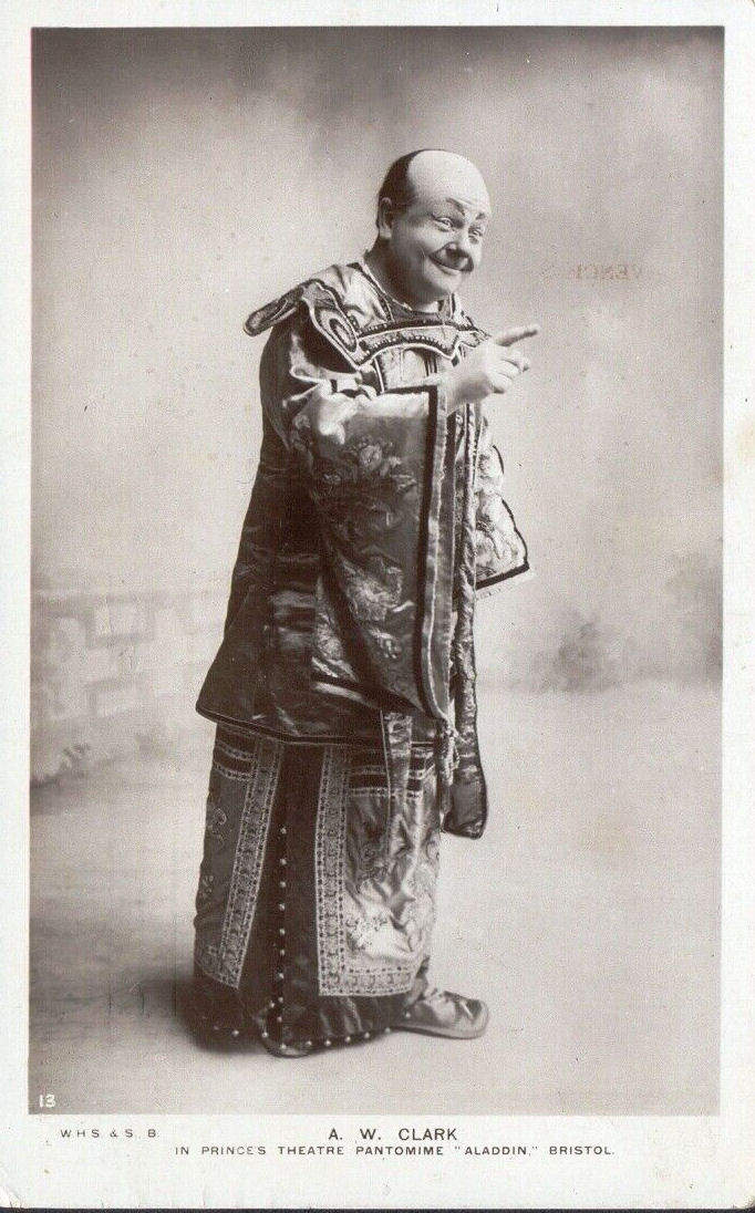 A. W. Clark in the pantomime 'Aladdin' at the Prince's Theatre, Bristol (1909)